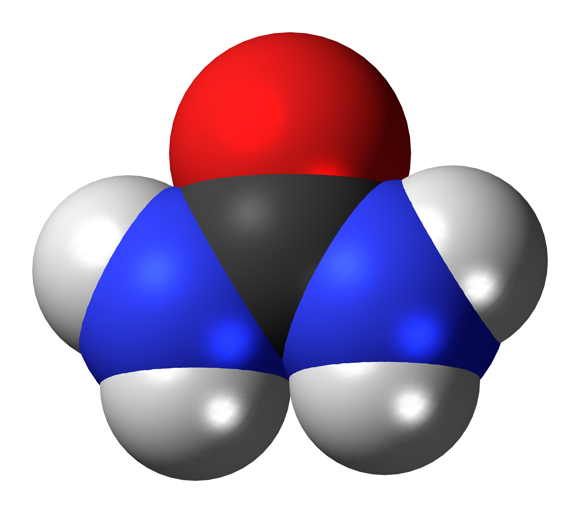 Space-filling model of the urea molecule, also known as carbamide, an important biological compound and industrial raw material. Colour code: Carbon, C: black Hydrogen, H: white Oxygen, O: red Nitrogen, N: blue